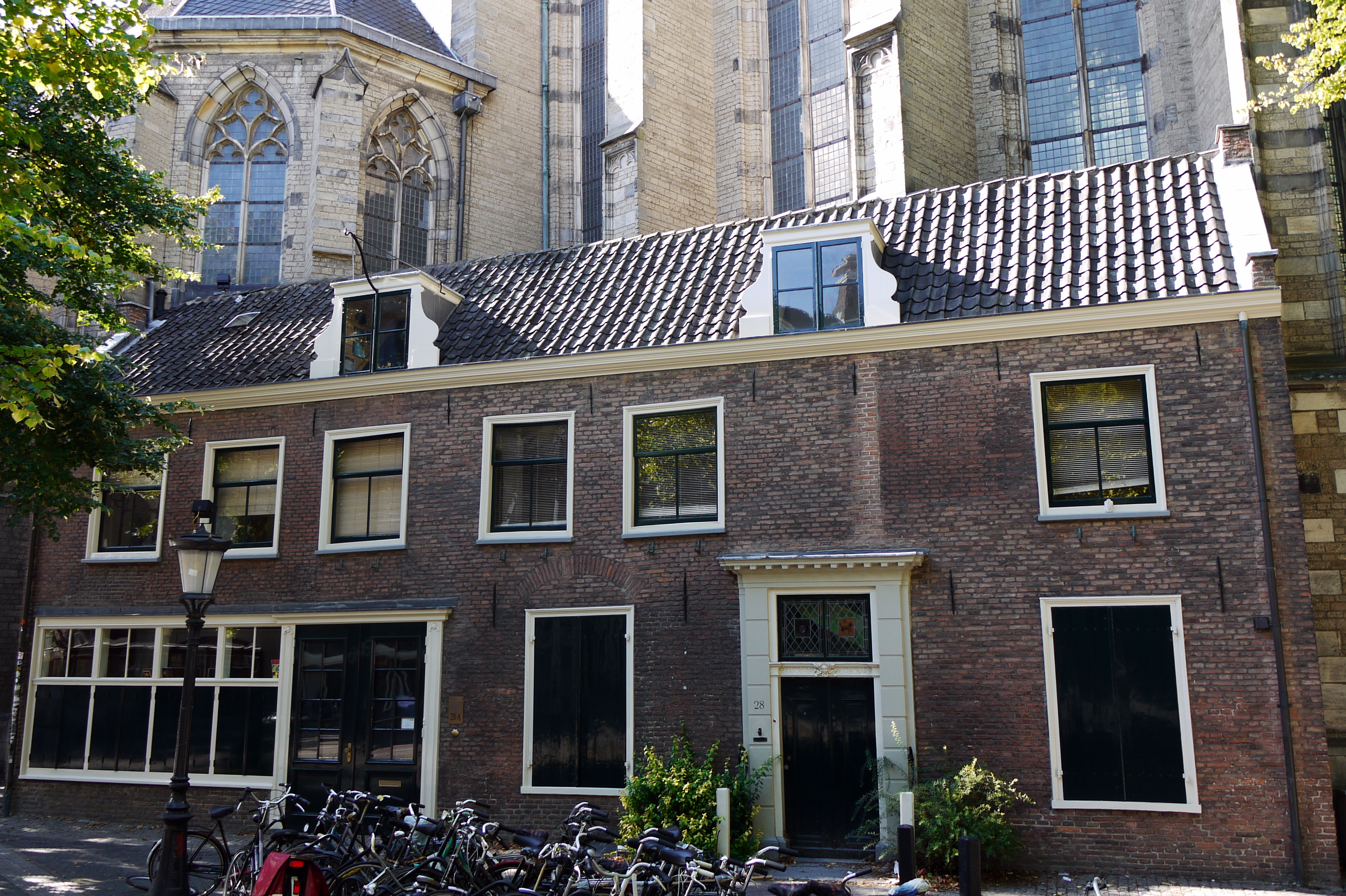 A house at Janskerkhof 28, Utrecht.